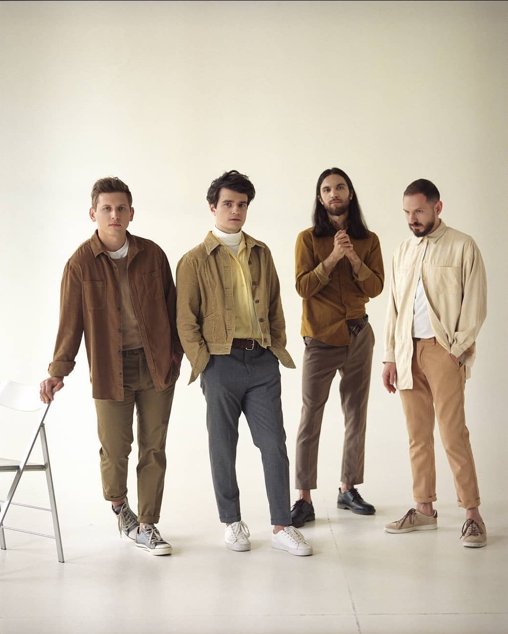 Promo shoot of Brunettes Shoot Blondes, 2019.